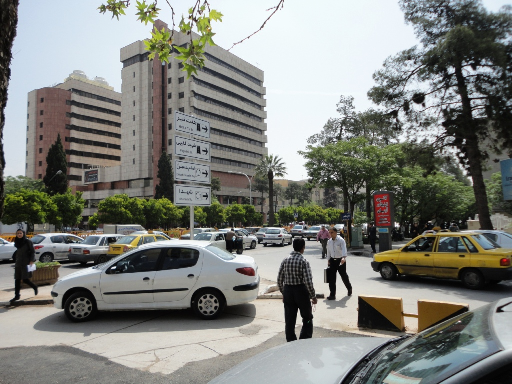 pars Hotel